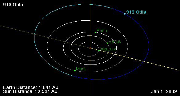 913 Otila orbit, and his position on 01 Jan 2009 (NASA Orbit Viewer applet)